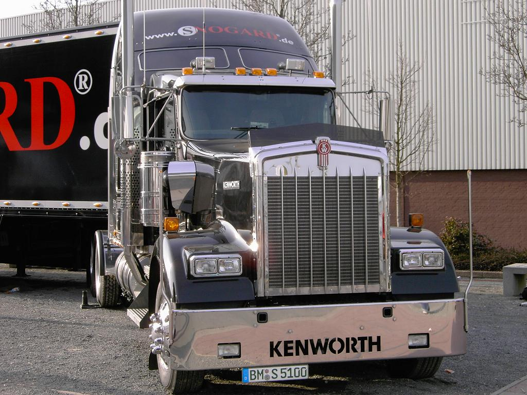 Kenworth truck at the CeBIT expo 2005 (Hannover / Germany)